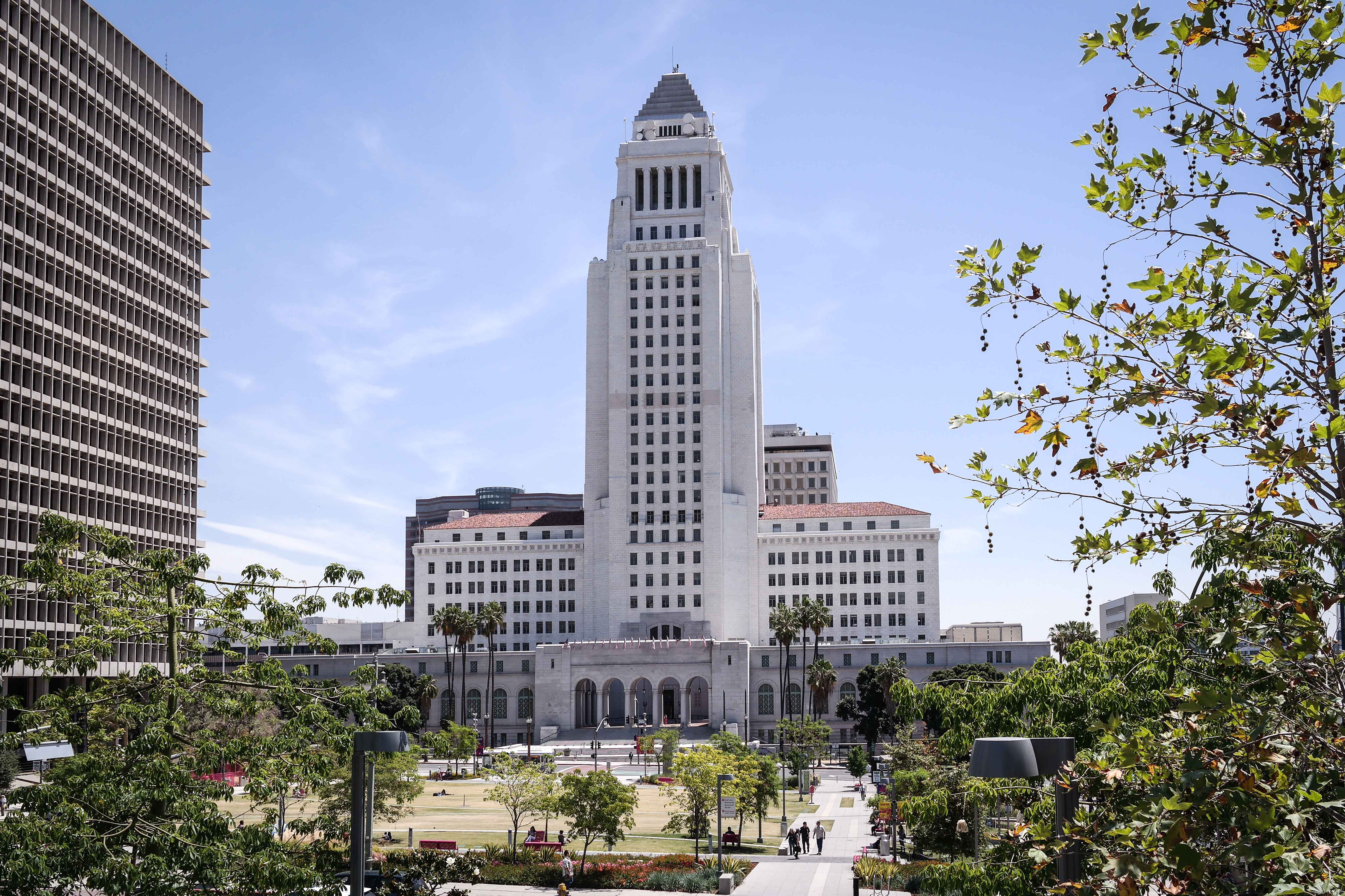 A view of Los Angeles City Hall